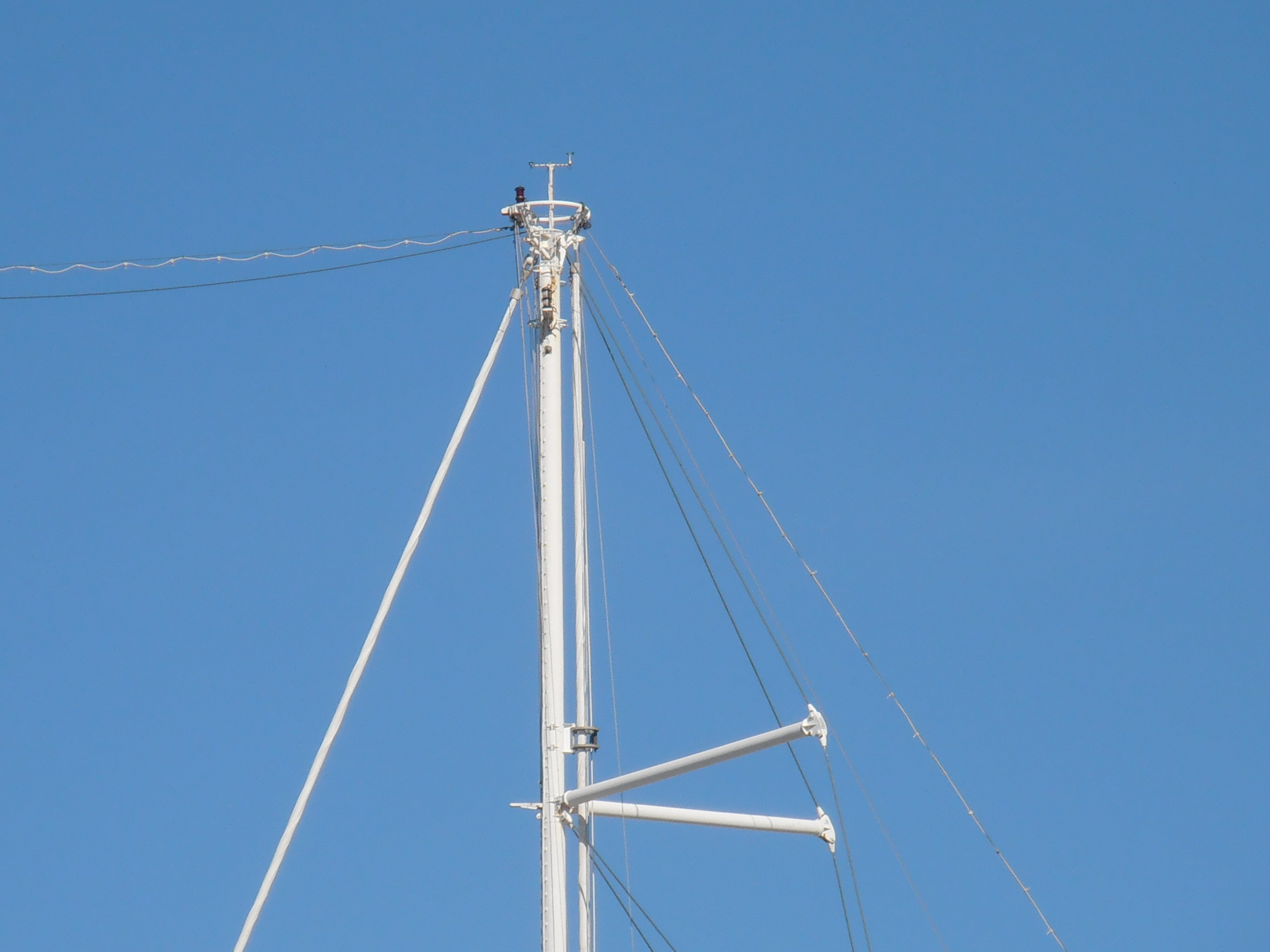 Wind Surf Top Tallinn 9 August 2012